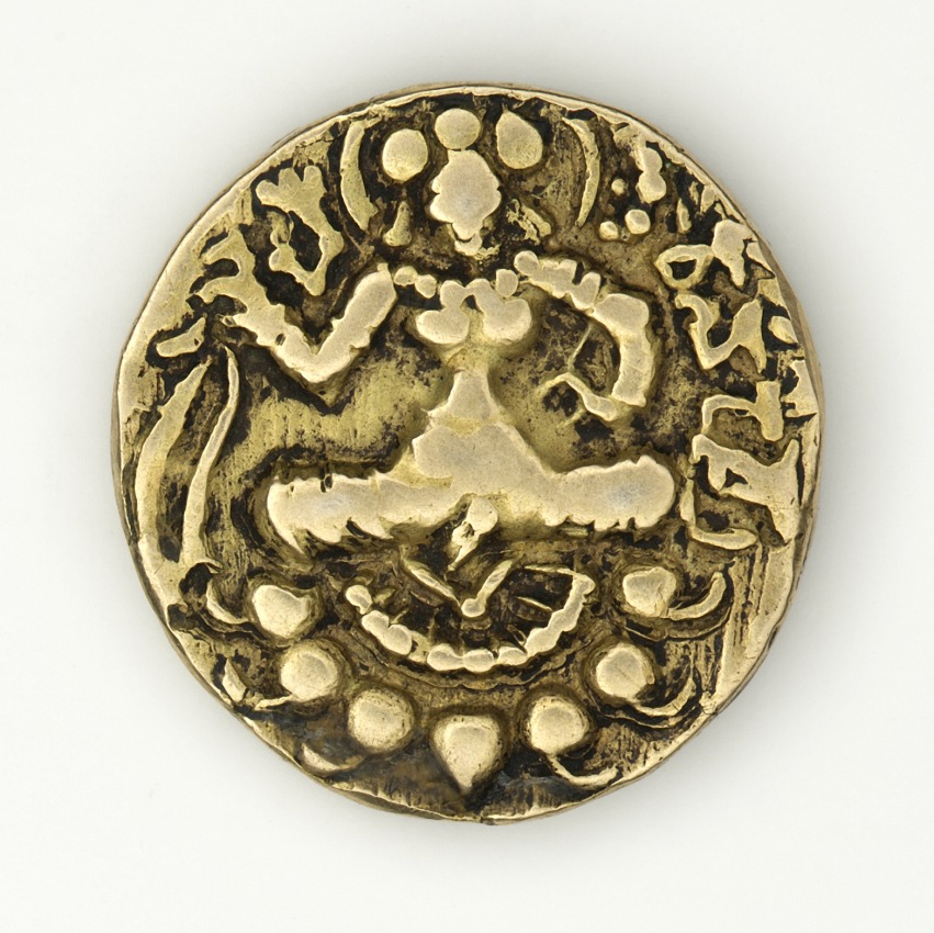 India, circa 510-532 Tools and Equipment; coins Gold Gift of Dr. and Mrs. A. J. Montanari (M.77.56.24) South and Southeast Asian Art